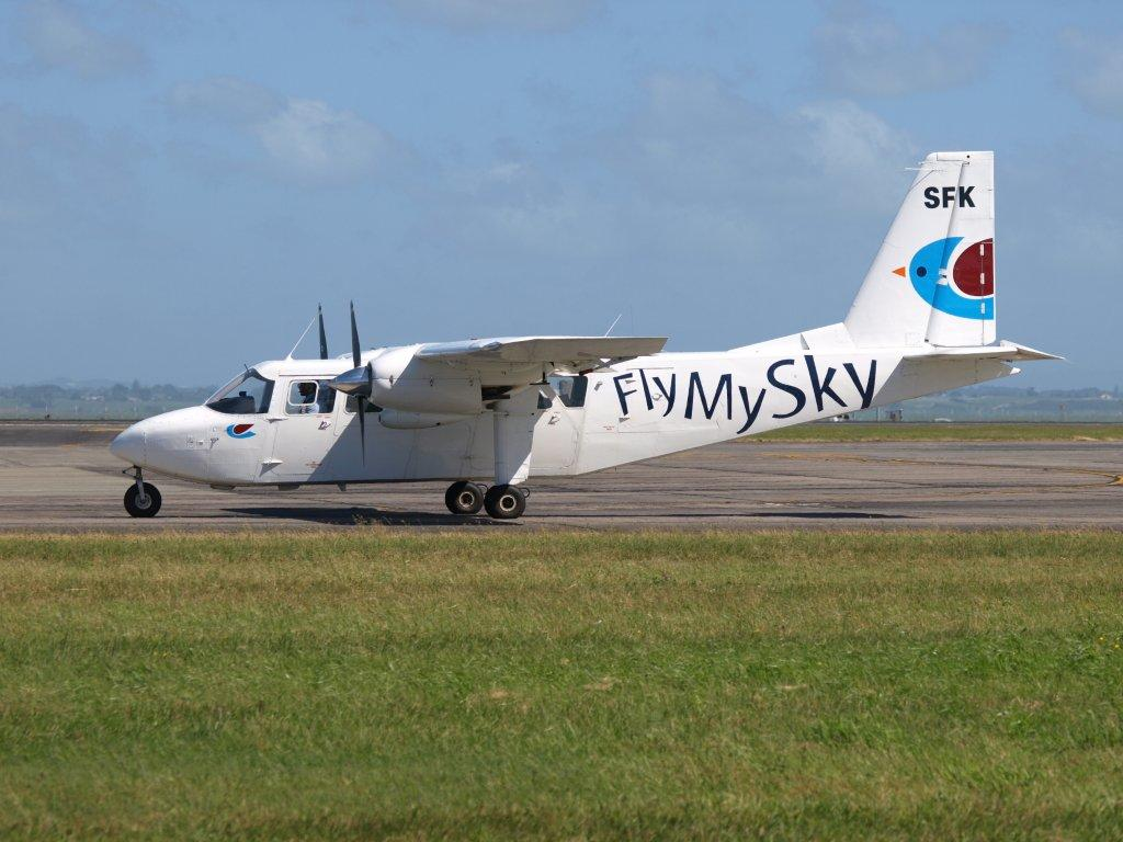 Fly My Sky's Britten Norman Islander at Auckland in 2009